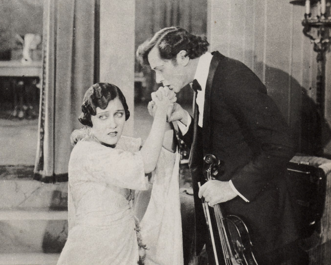 Gloria Swanson & Theodore Kosloff in Why Change Your Wife? - cropped screenshot